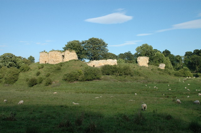 Mitford Castle is a Scheduled Ancient Monument and a Grade I listed building at Mitford, Northumberland, England.